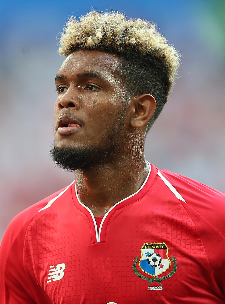 Panamanian footballer Ricardo Ávila on 24 June 2018, during the 2018 FIFA World Cup group stage match between England and Panama.